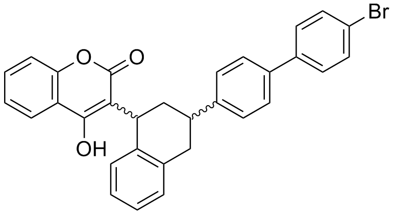 (1RS,3RS;1RS,3SR)-Brodifacoum, a second generation anticoagulant.